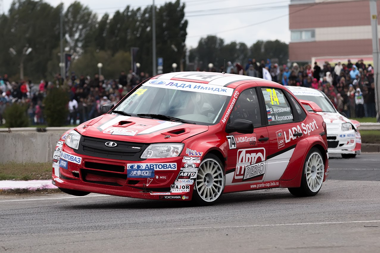 Nezvankin, Kozlovsky, LADA Granta Cup 2013, Tolyatti